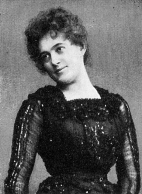 German actress Agnes Sorma (1862-1927)